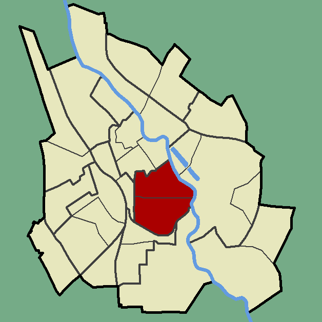 Locator map of Karlova, Tartu, Estonia.